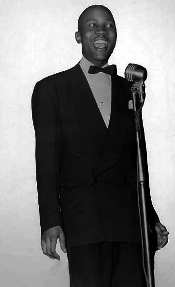 Publicity photo of Eddie "Cleanhead" Vinson.